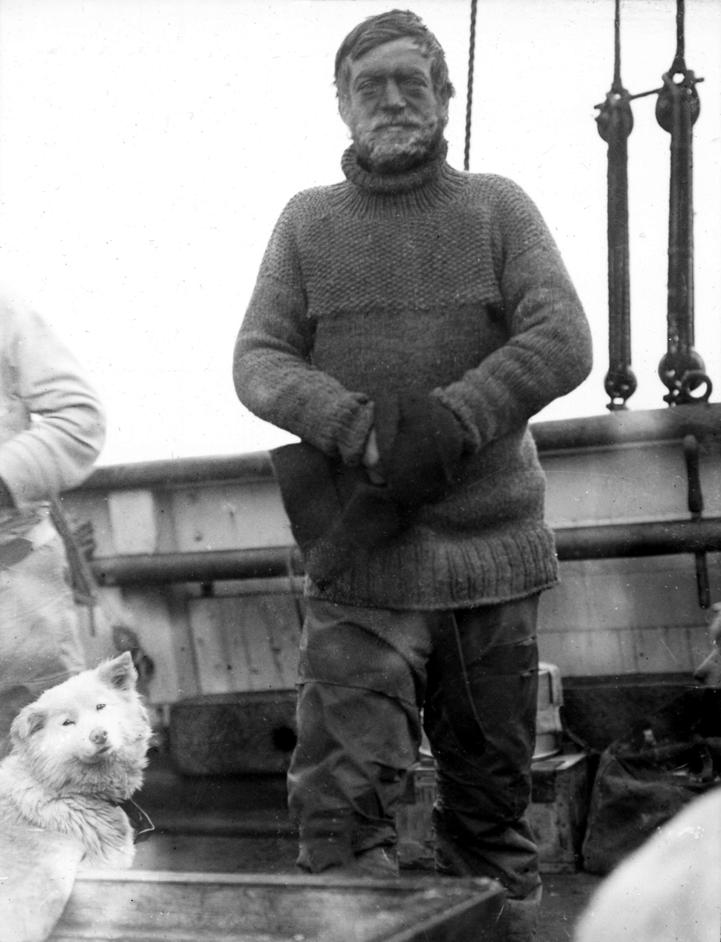 Photographs of the Nimrod Expedition (1907-09) to the Antarctic, led by Ernest Sheckleton